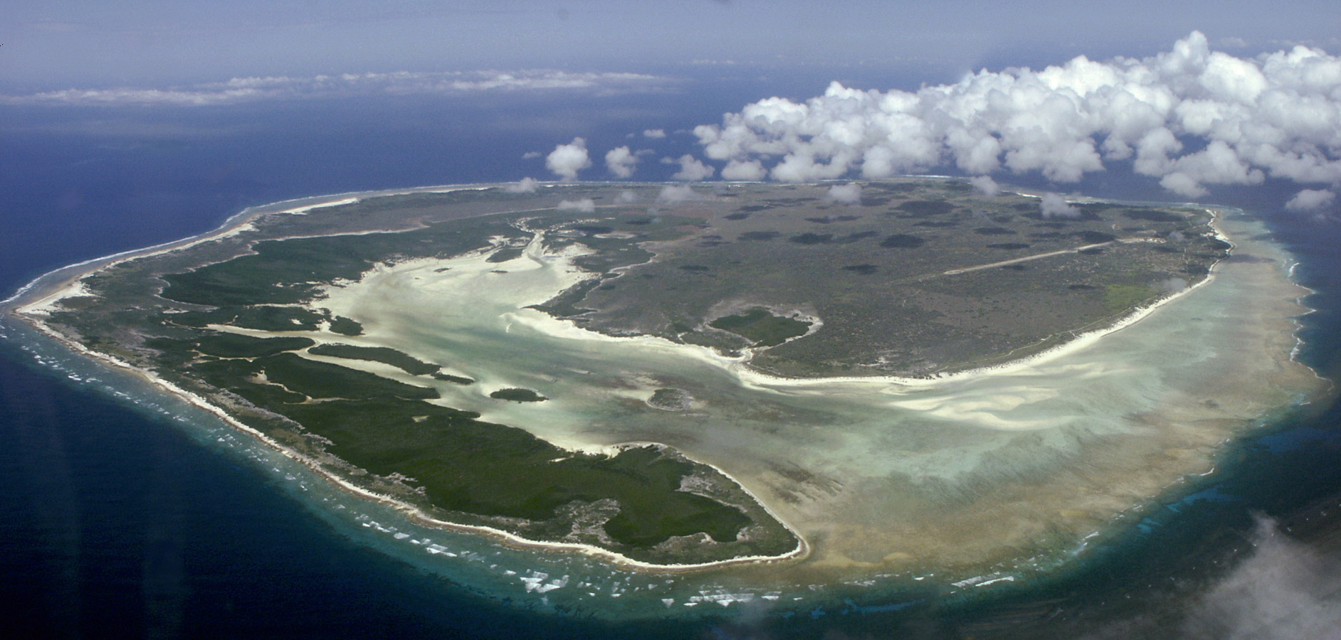 aerial view of Europa island (merge of two photos made before landing, through the window of a french army transall)